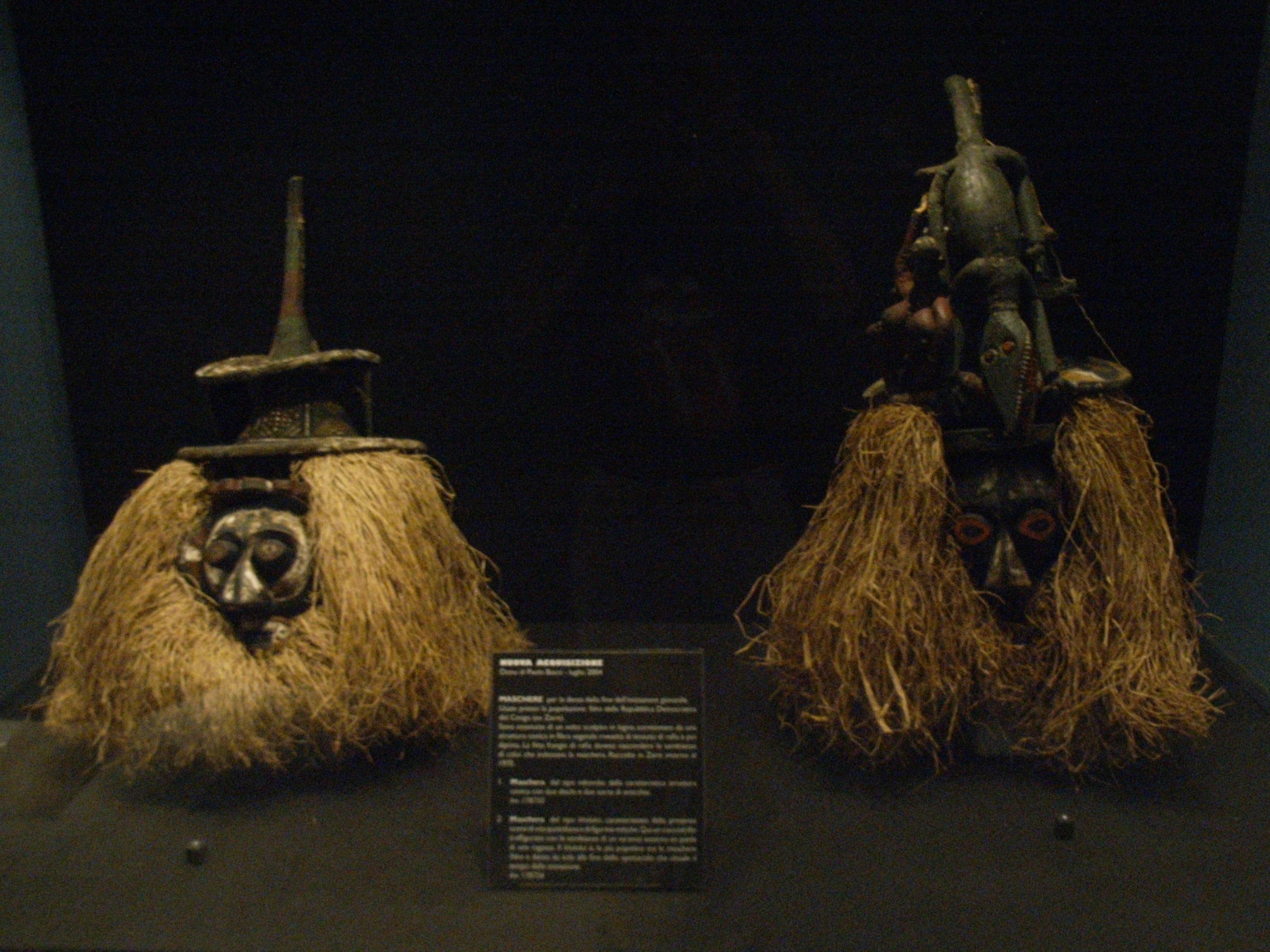 African Masks Pigorini National Museum of Prehistory and Ethnography